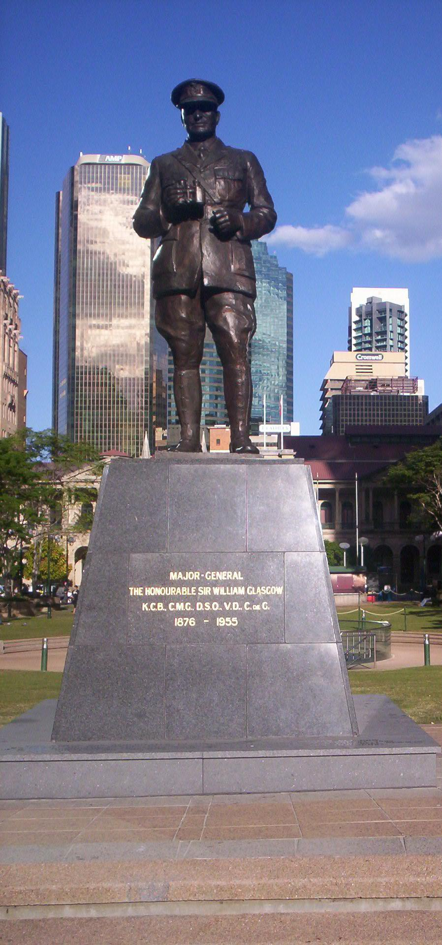 Statue of Major-General Sir William Glasgow by Daphne Mayo, at Post Office Square, Brisbane, Queensland, Australia